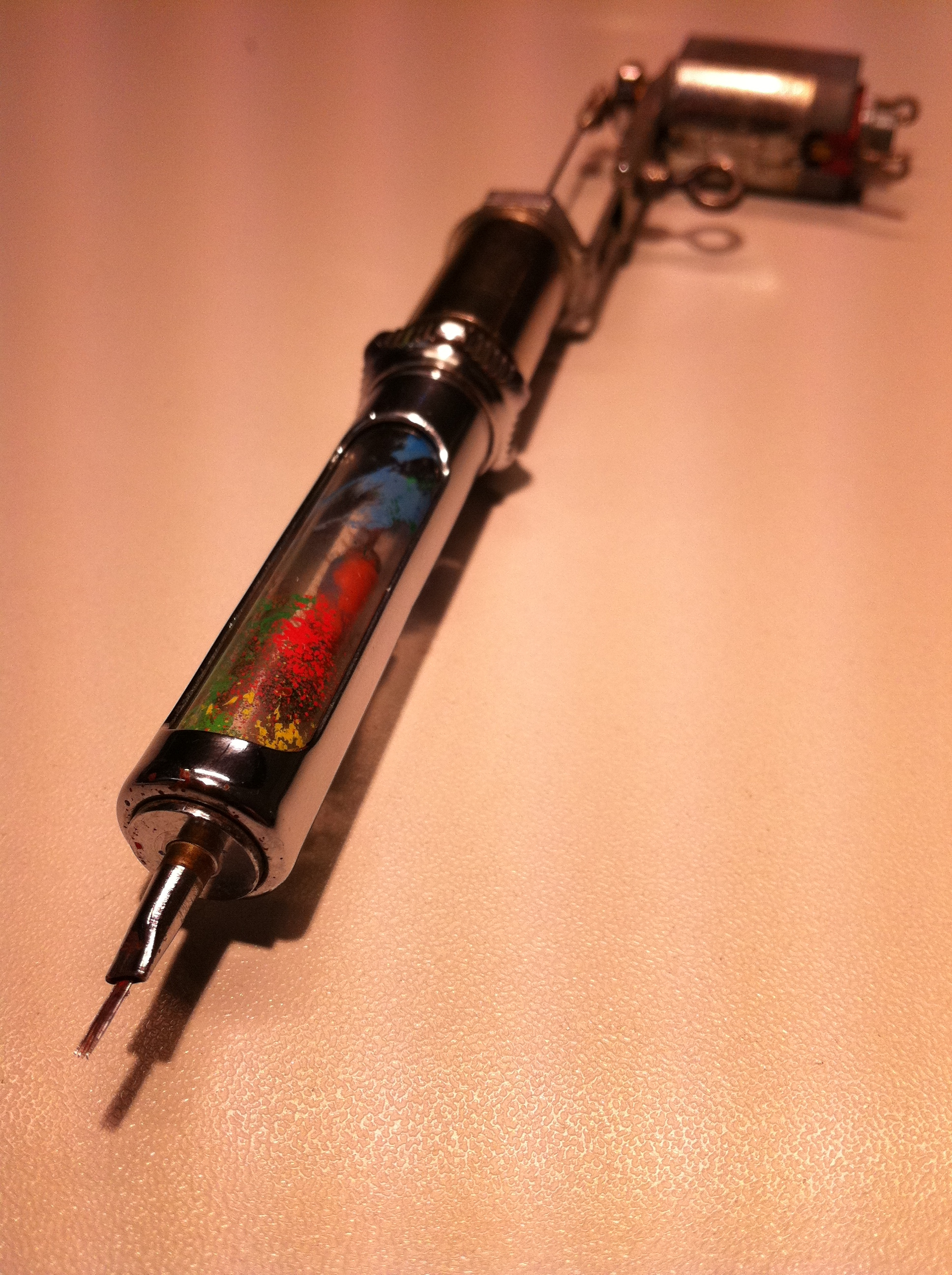 Streckenbach - Kohrs rotary-tattoo-machine type 1978 K